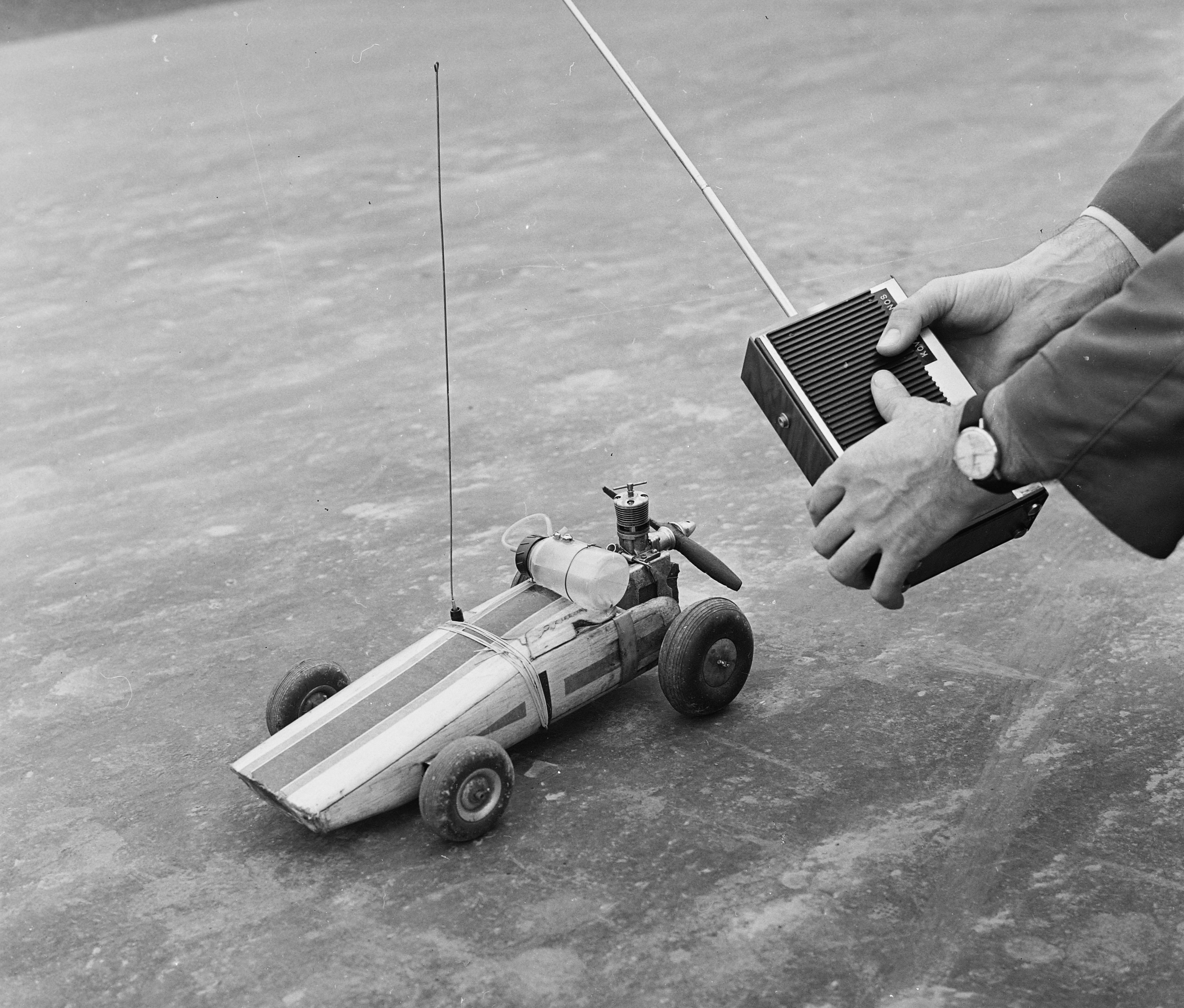 Location: Hungary